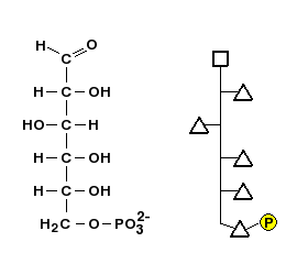 Glucose 6P